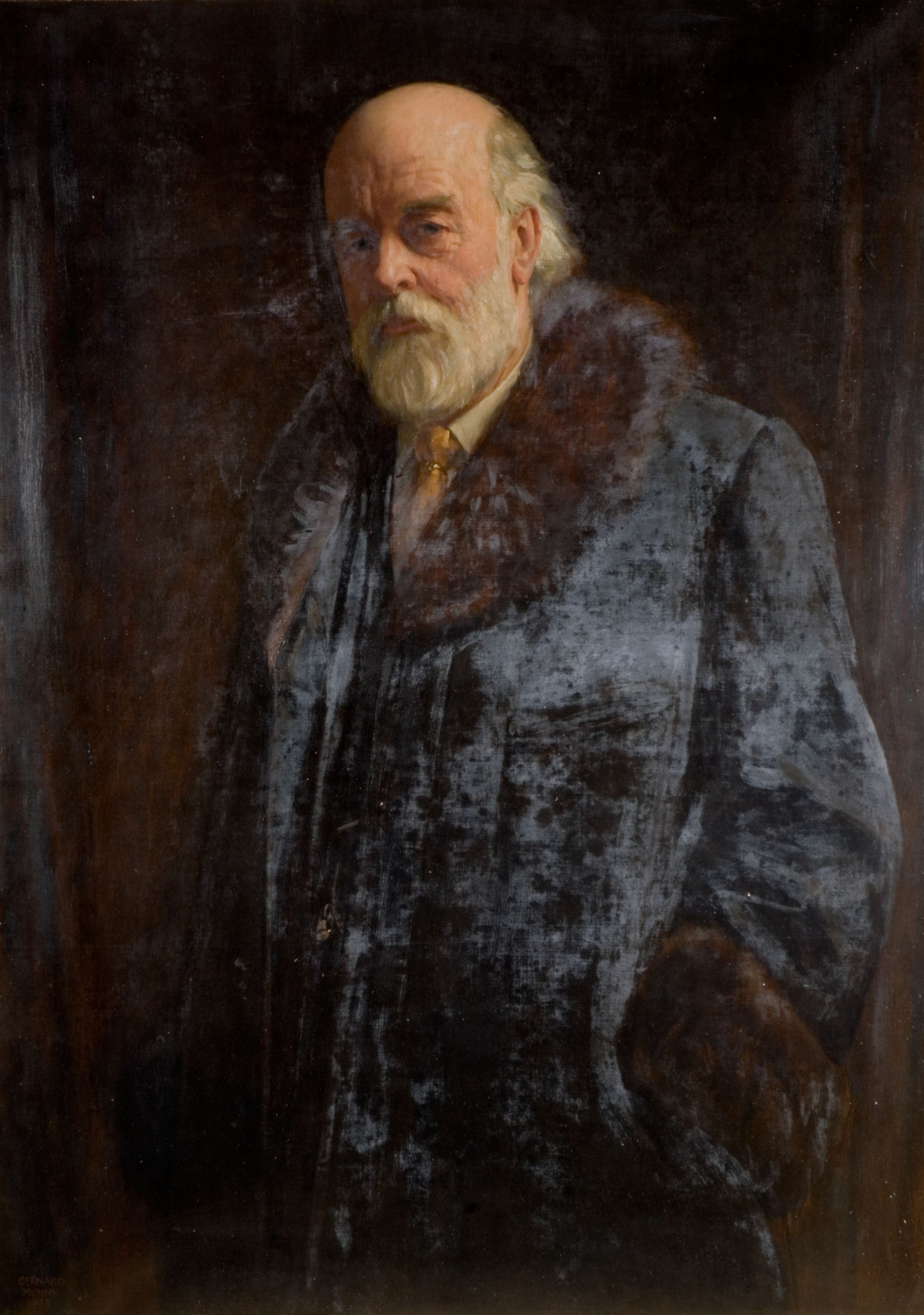 Portrait of Sir Oliver Joseph Lodge by John Bernard Munns (1869-1942). Painted in 1923.